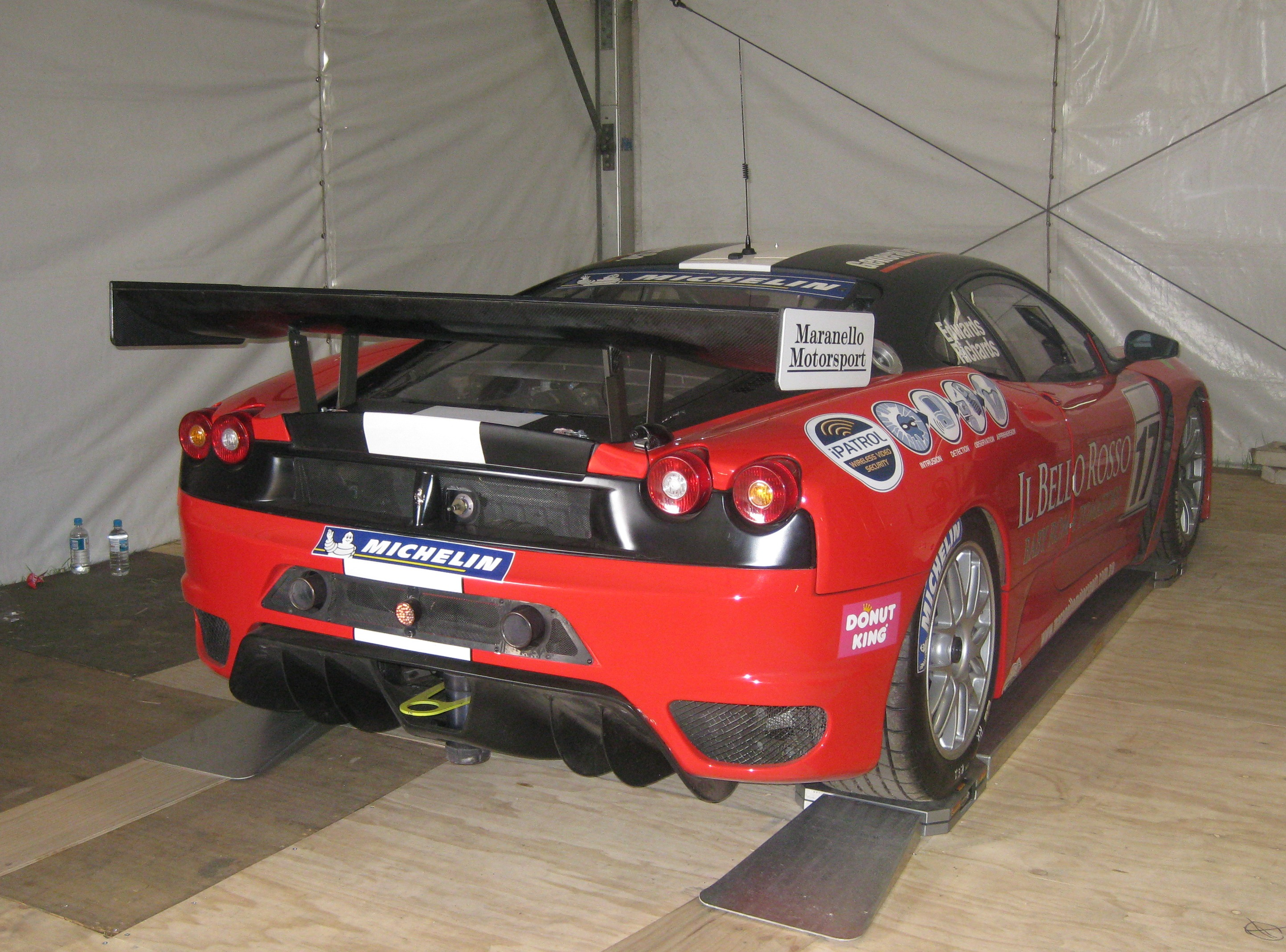 The Ferrari 430 of Peter Edwards & Jason Richards at the Adelaide Parklands Circuit for the opening round of the 2011 Australian GT Championship